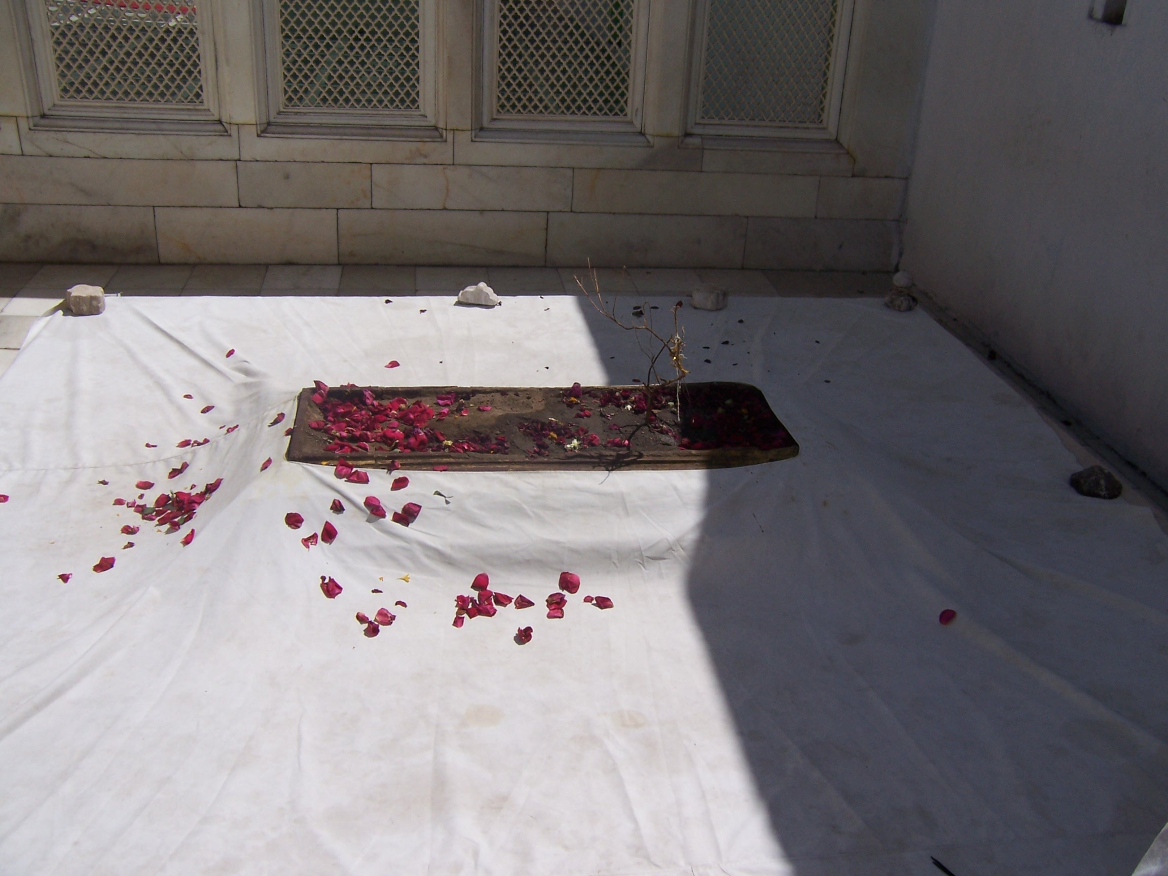 Aurangzeb's Tomb in Khuldabad (Maharashtra, India)